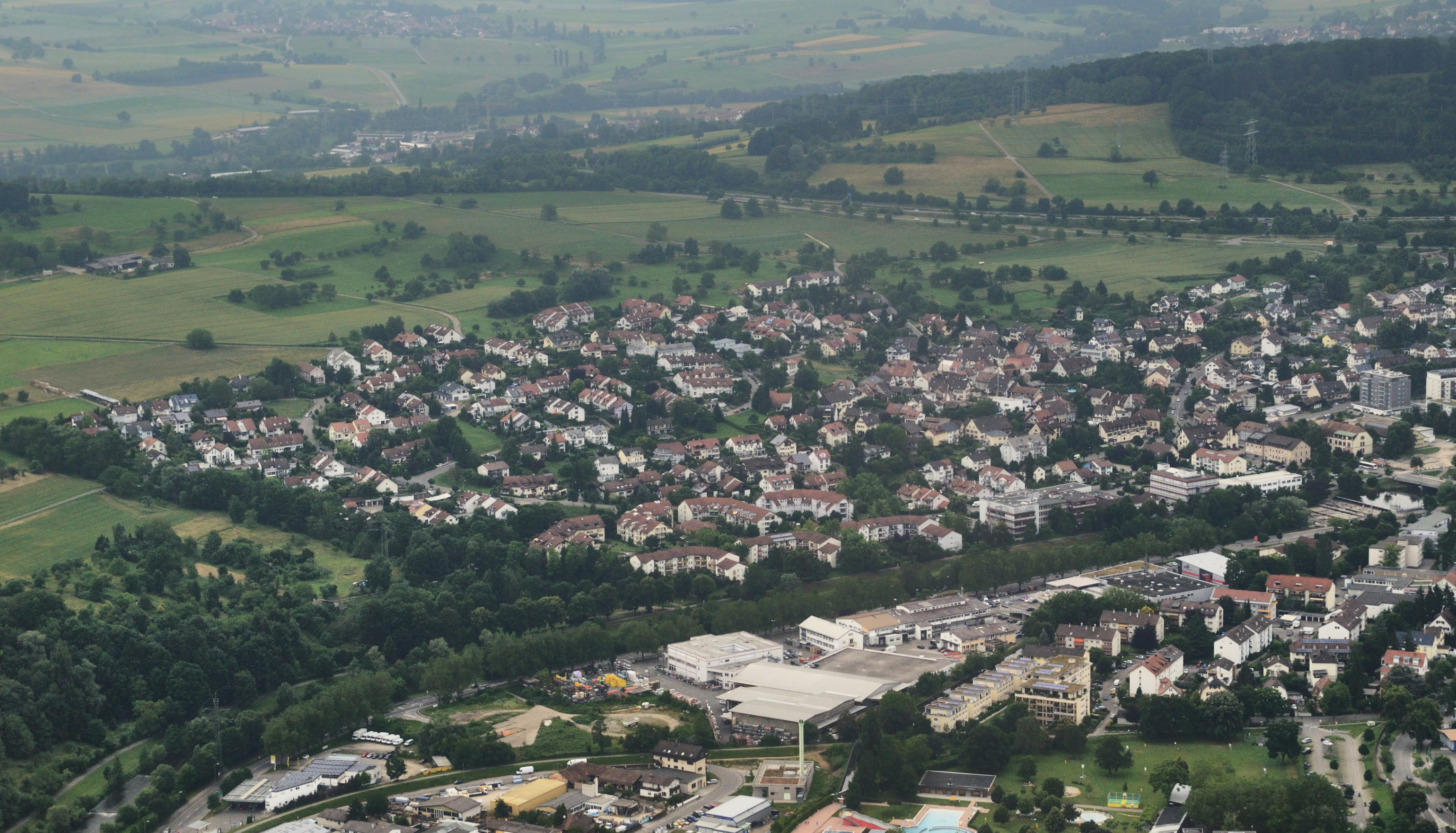 Lörrach: aerial view of Tumringen